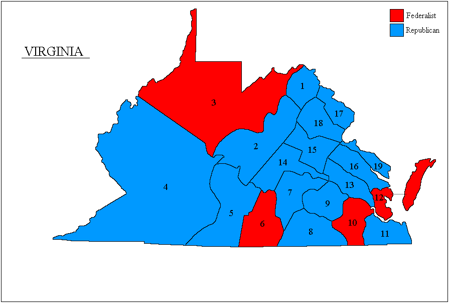 Congressional district map of Virginia for the 5th Congress, 1796